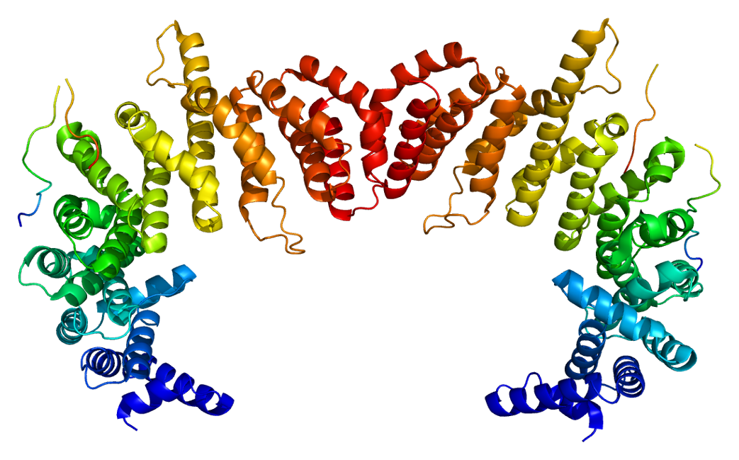 Structure of the KPNB1 protein. Based on PyMOL rendering of PDB 1f59.